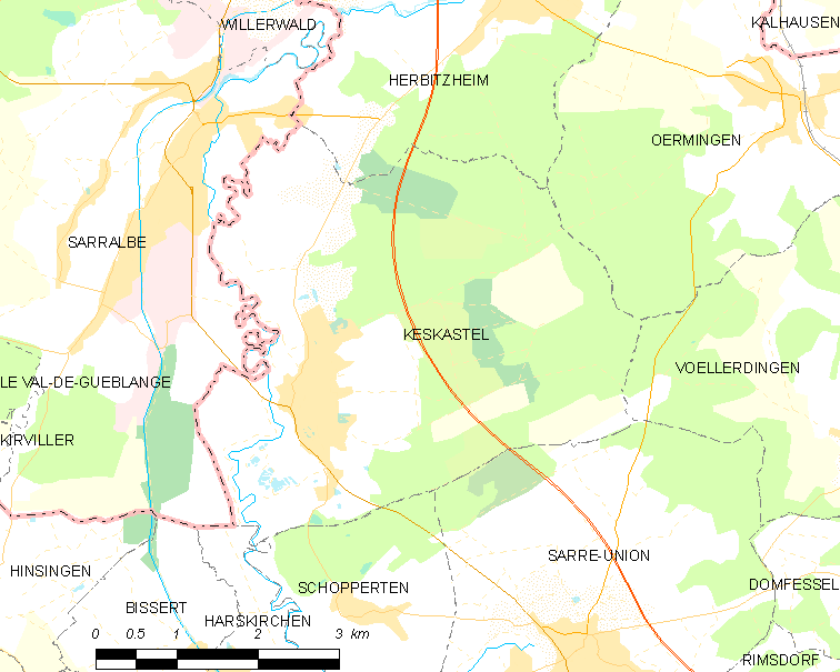 Map of French municipality